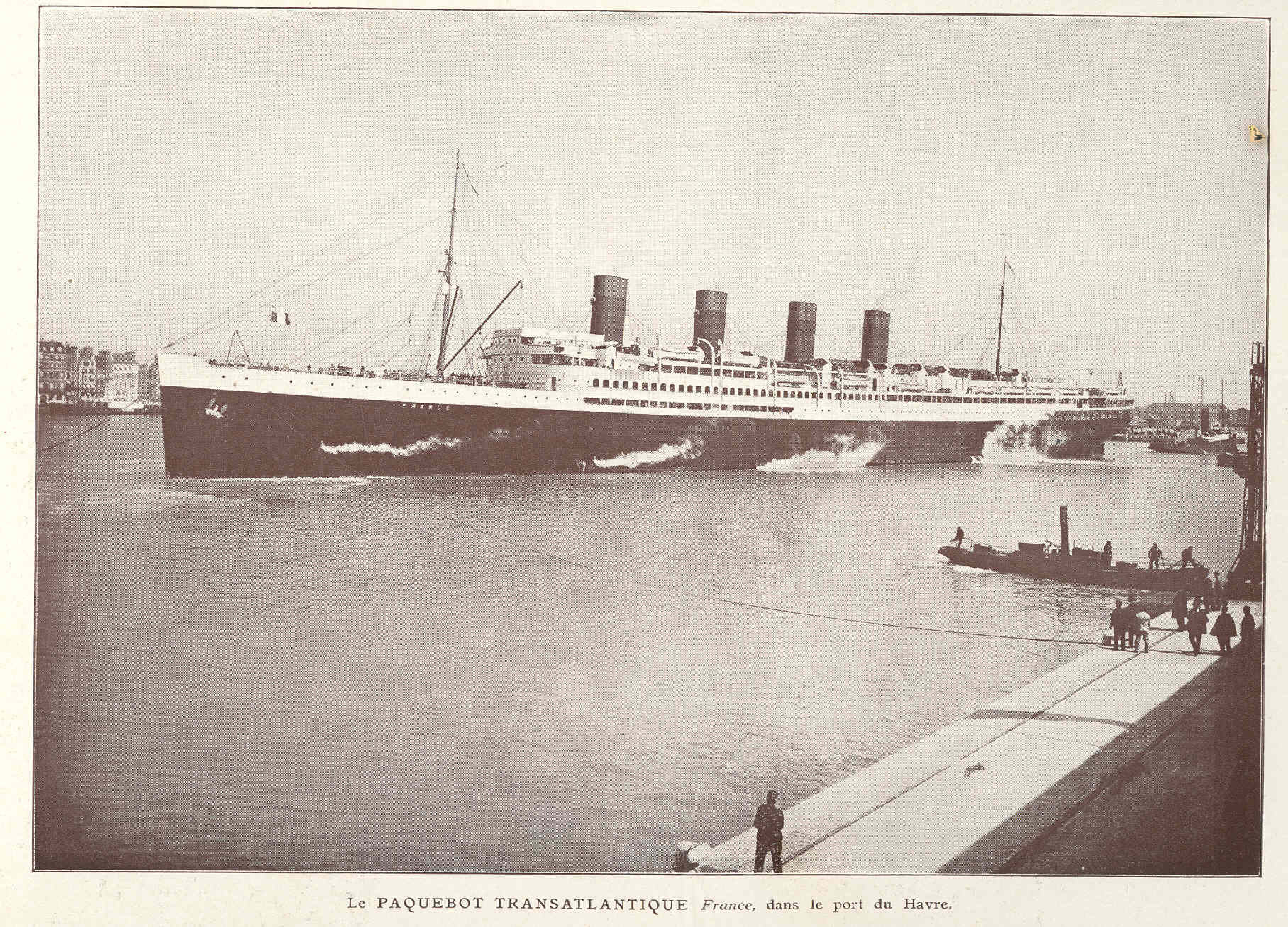 Subject: Ocean liners, France (Ship), Le Havre (France) Geographic Subject: France--Le Havre Tag: Vessels